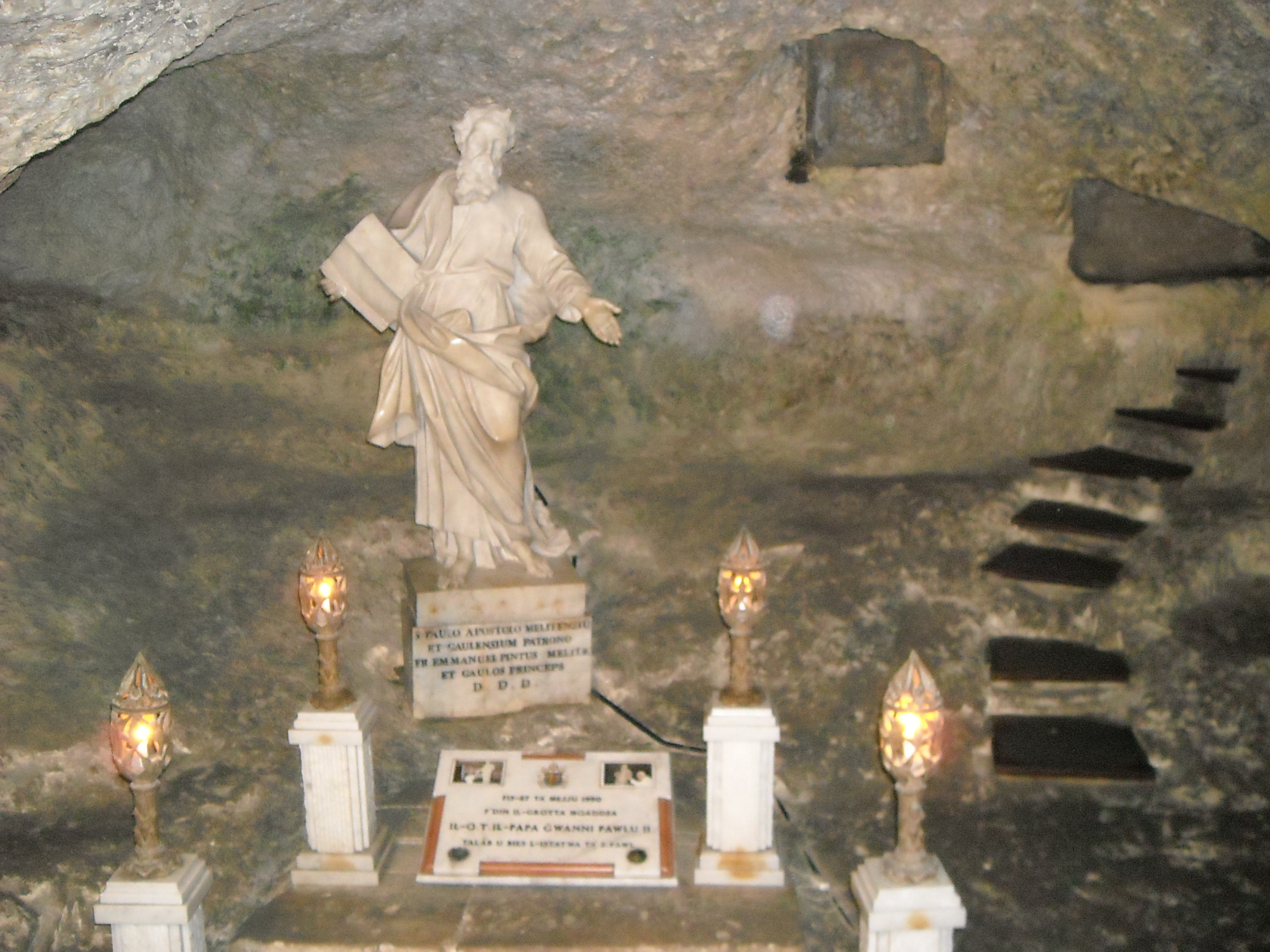 St. Paul's grotto, Rabat, Malta